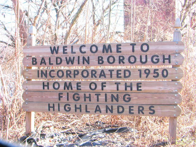 PixOnTrax PixOnTrax